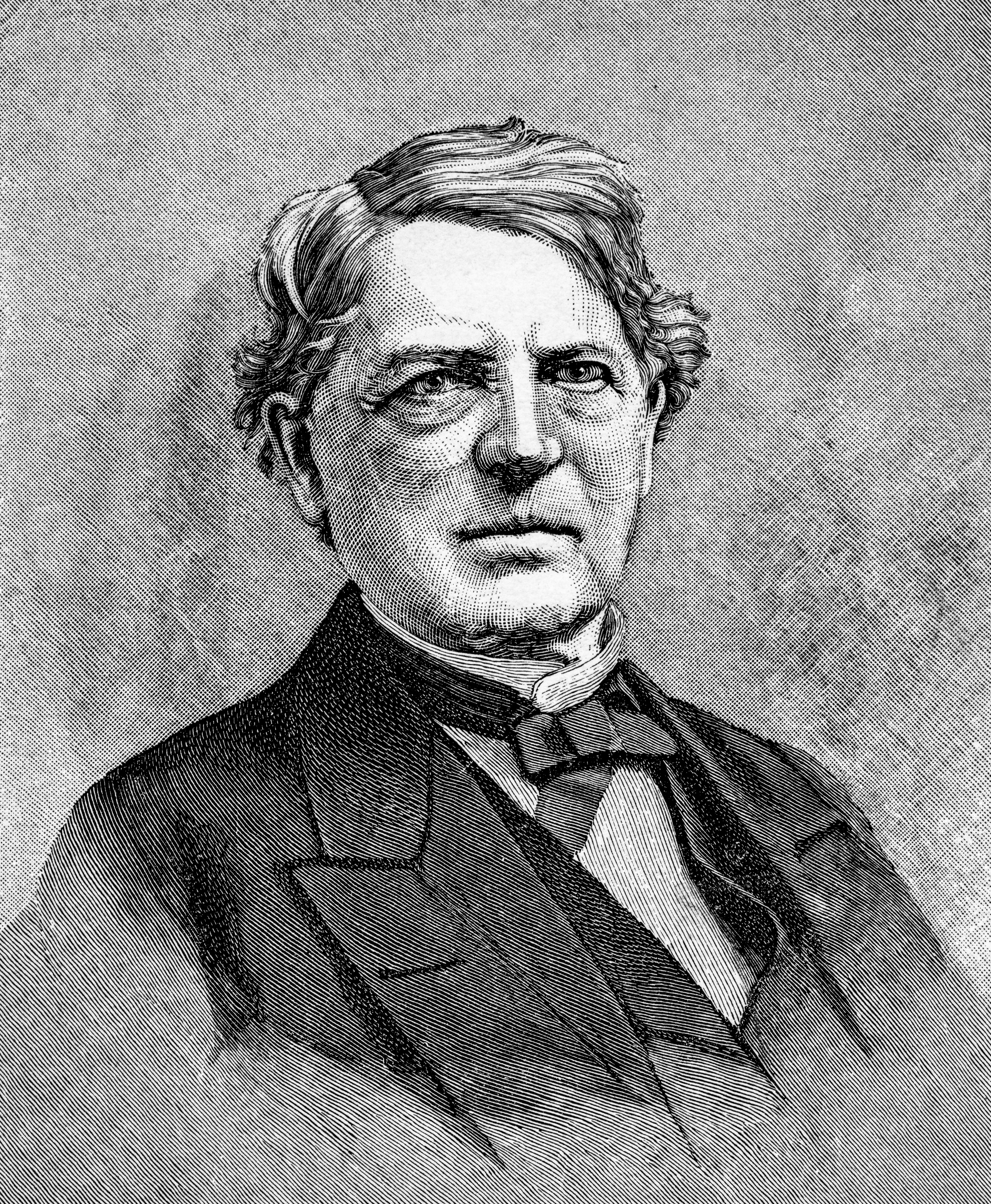 Source: The Providence Plantations for 250 Years, 1886